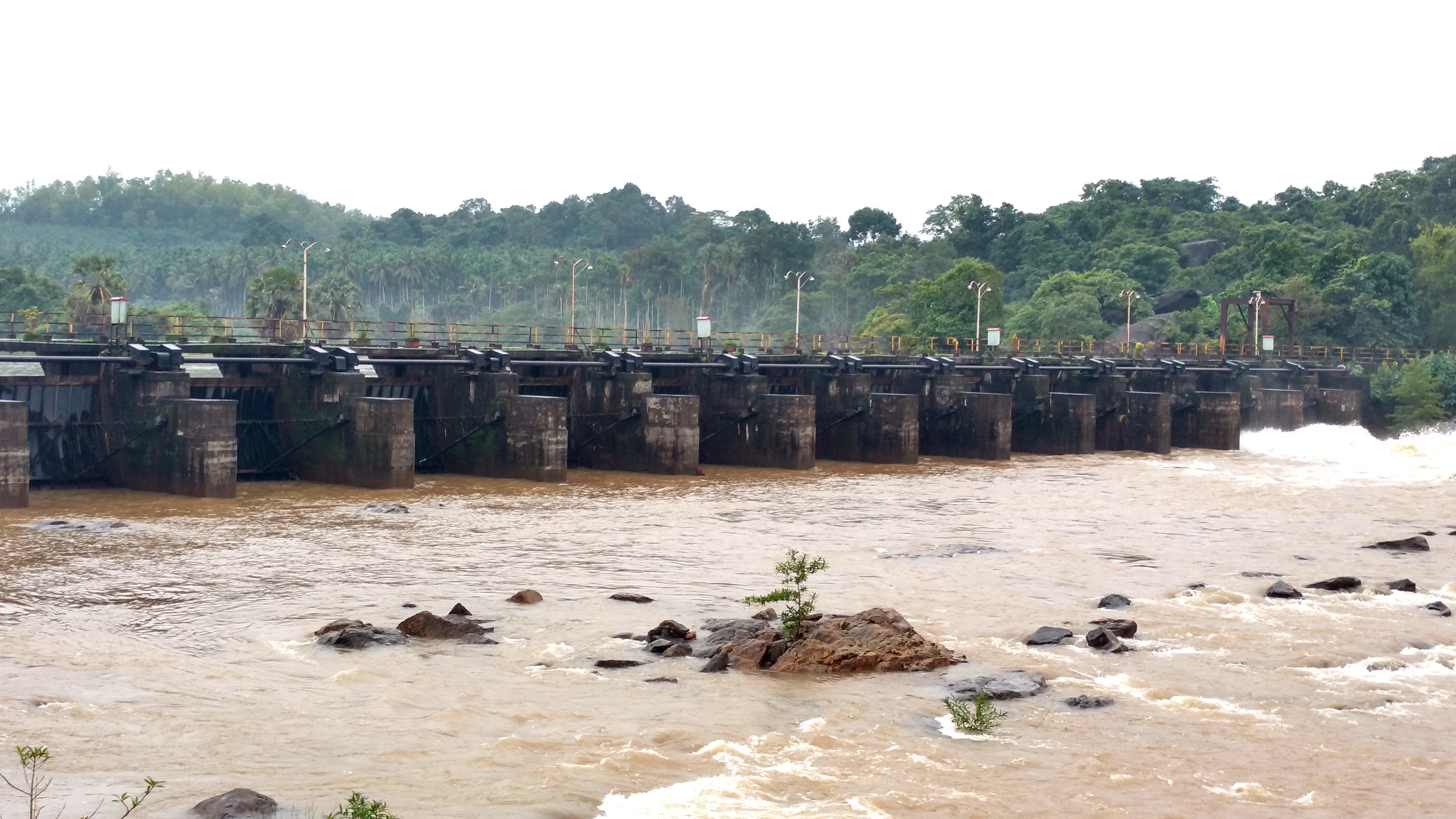 Mannapitlu Dam is a dam across the Gurupura River in the Dakshina Kannada district of Karnataka state, India.